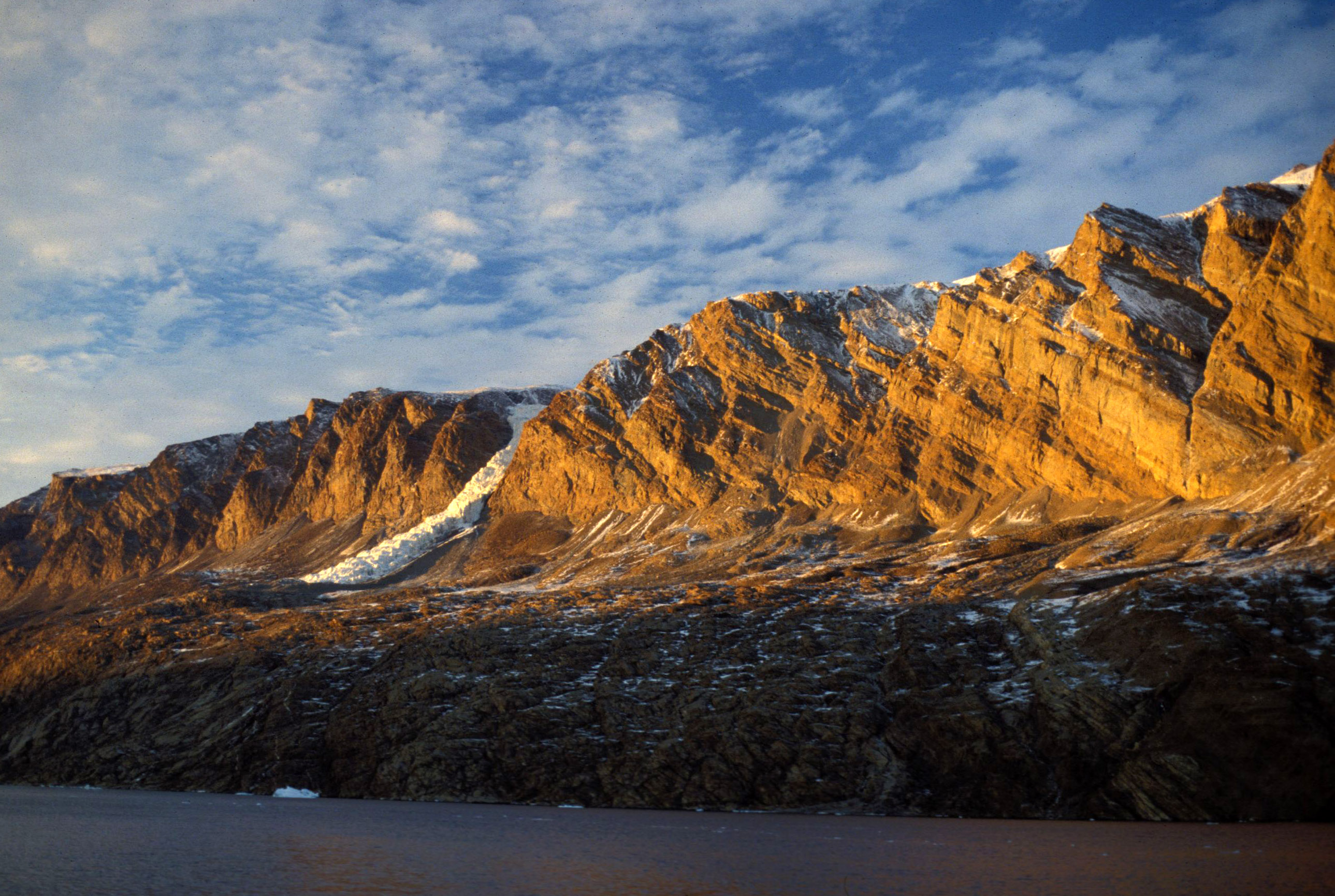 Glacier flowing down the side of Nordvestfjord (Scoresby Sund), Greenland